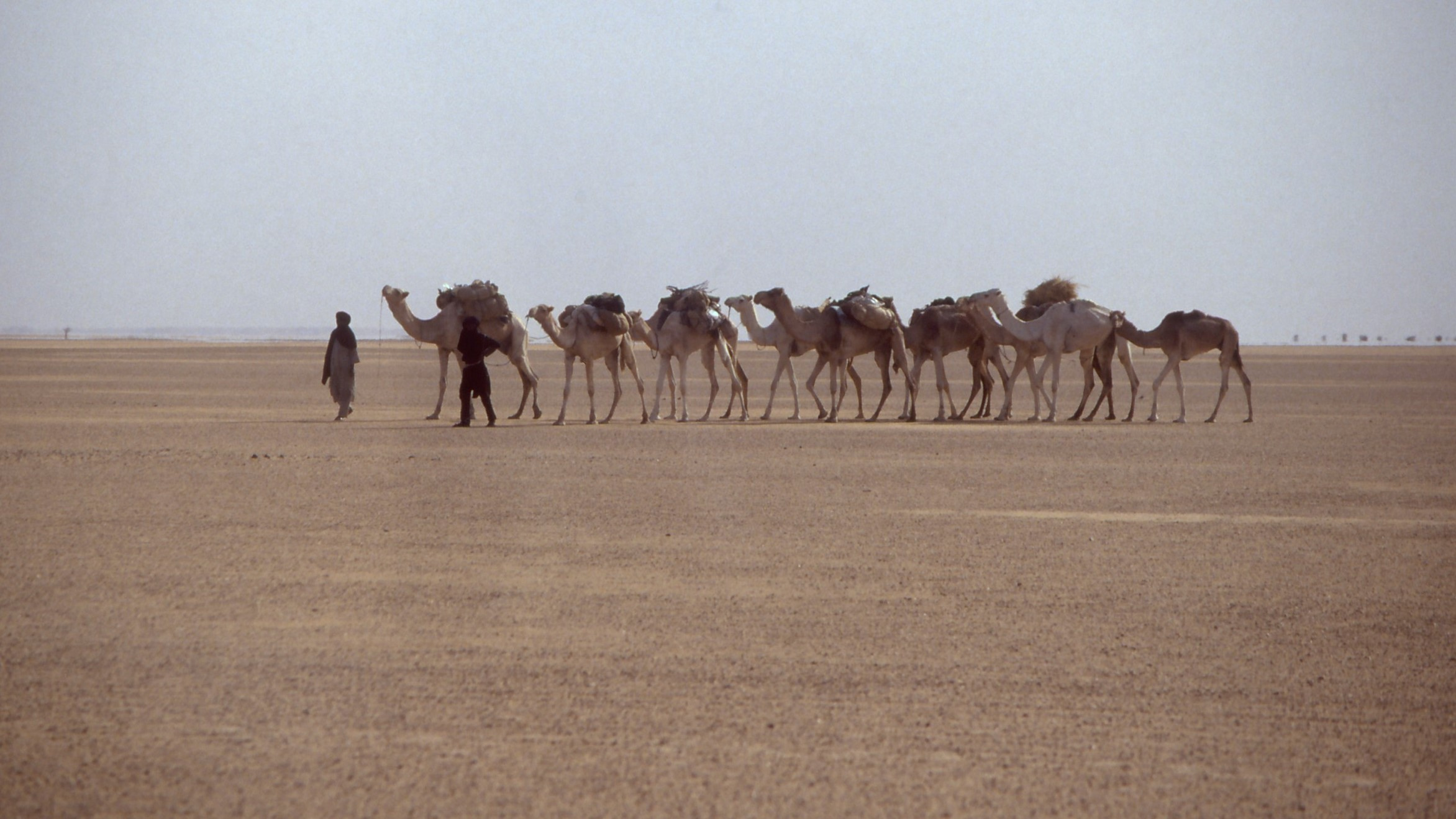 Caravan in the Sahara north of Agadez, Niger